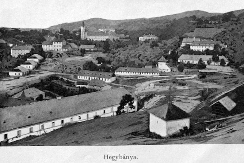 Štiavnické Bane, 1906 -book´s illustration